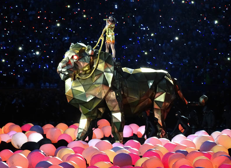 Katy Perry performing "Roar" at halftime of Super Bowl XLIX at University of Phoenix Stadium in Glendale, Ariz., on Feb. 1, 2015.